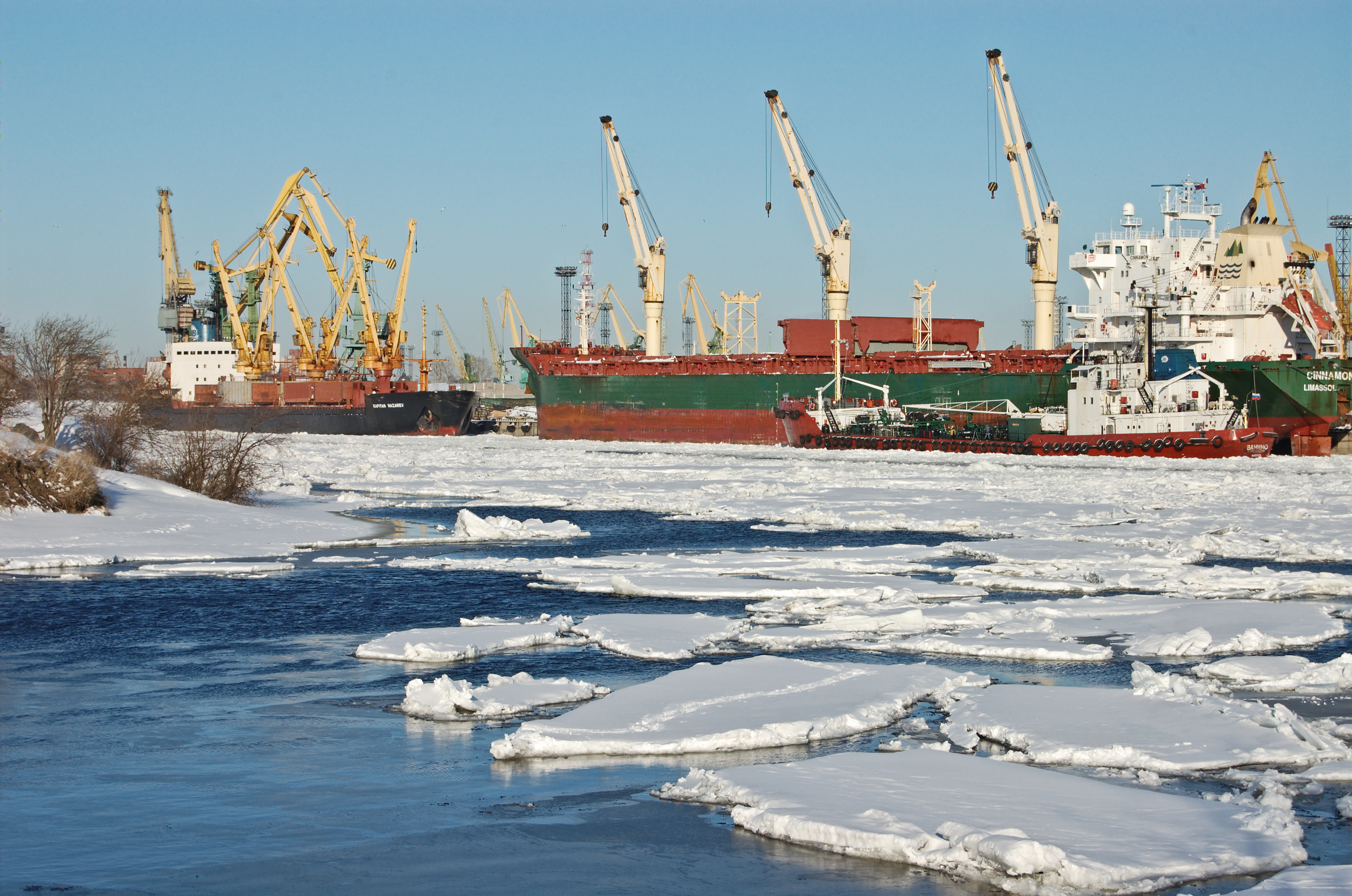 View to Second district of Big port Saint Petersburg from Kanonersky island